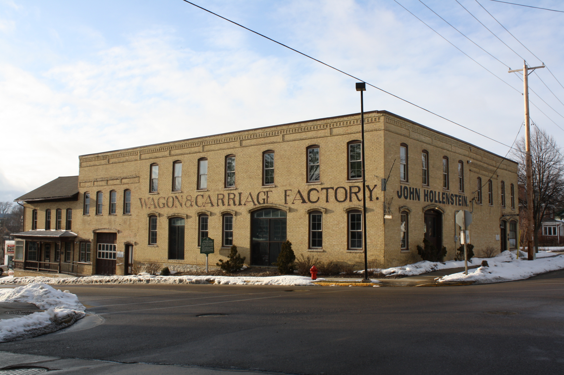 The Hollenstein Wagon and Carriage Factory in Mayville, Wisconsin. It is listed on the National Register of Historic Places.